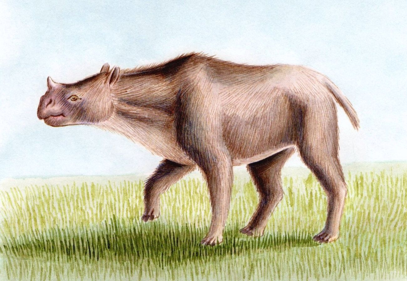 A recreation of the extinct mammal Leontinia.